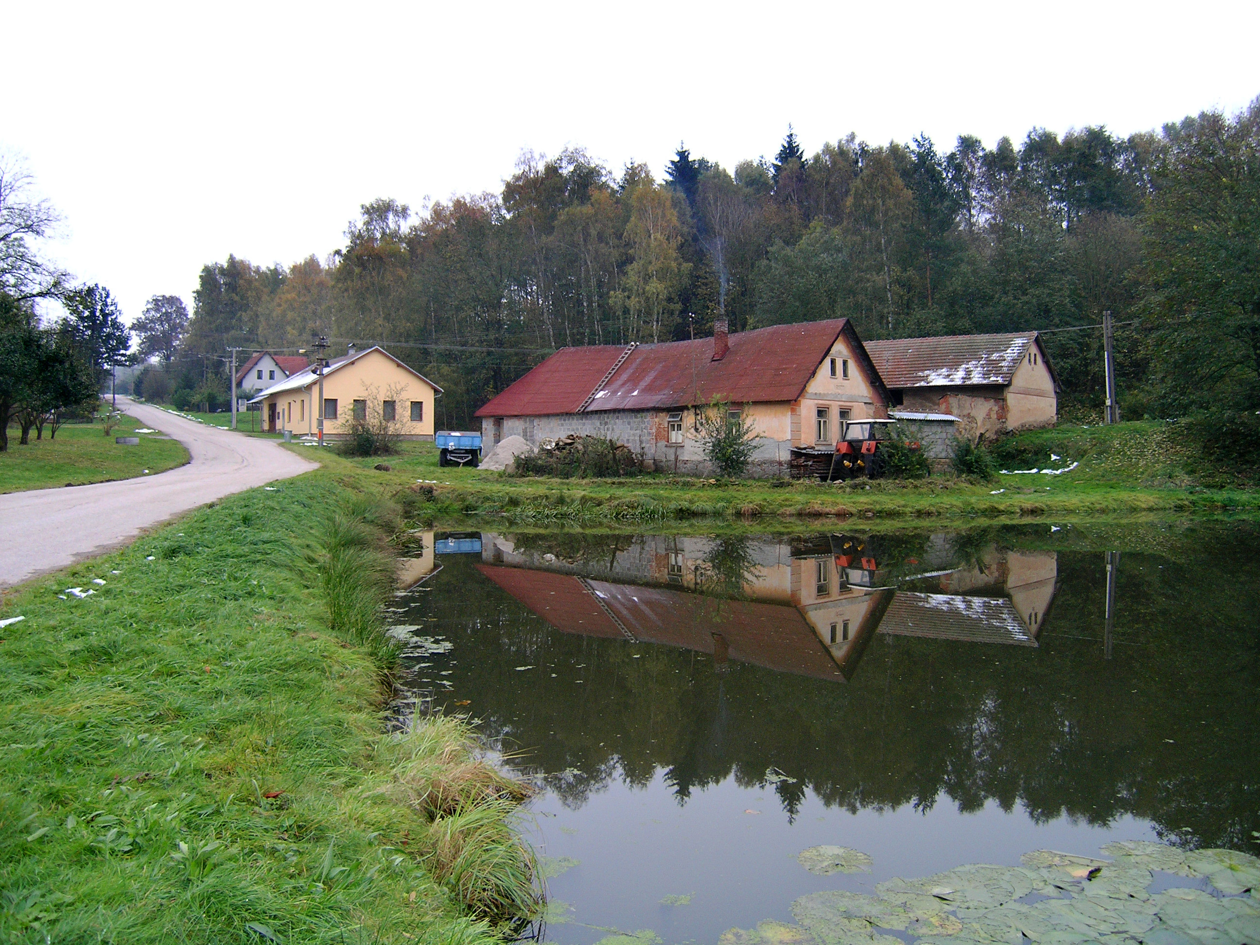 Common pond in Záhoří, part of Mladé Bříště village, Czech Republic